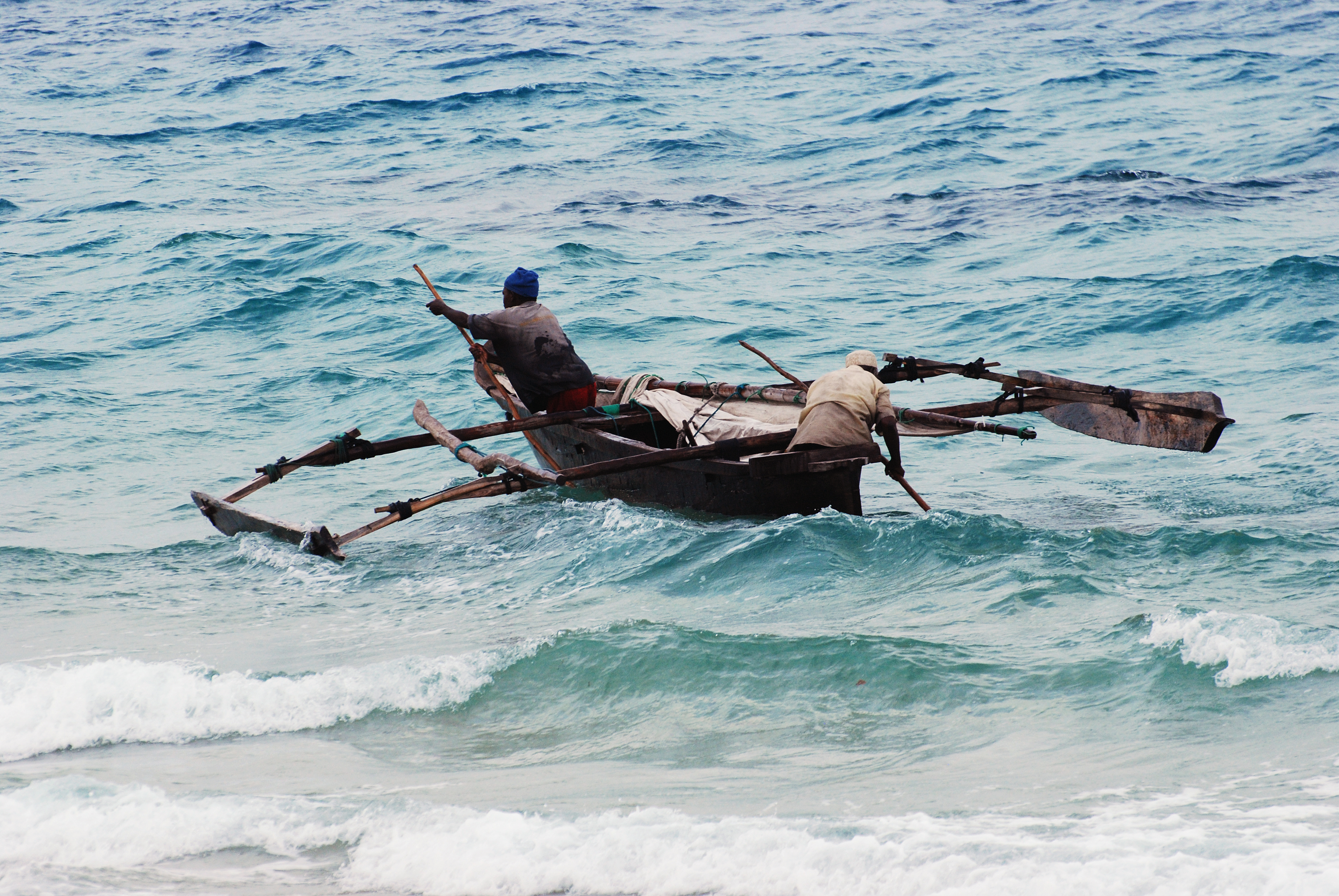 Views from the Zanzibar Serena Inn, Stone Town, Zanzibar